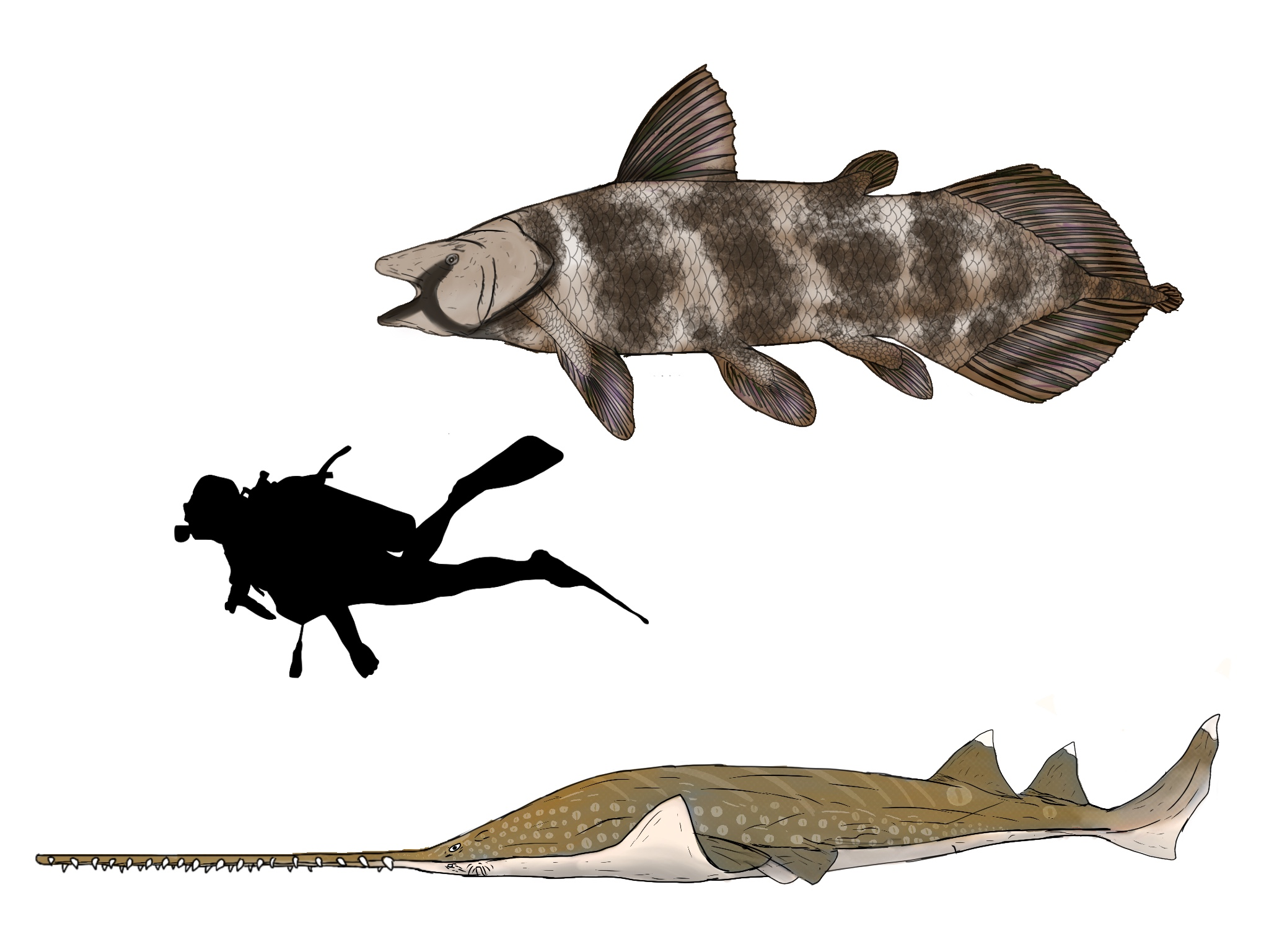 This is a picture of two fish from the Kem Kem beds, compared to the size of a human male diver